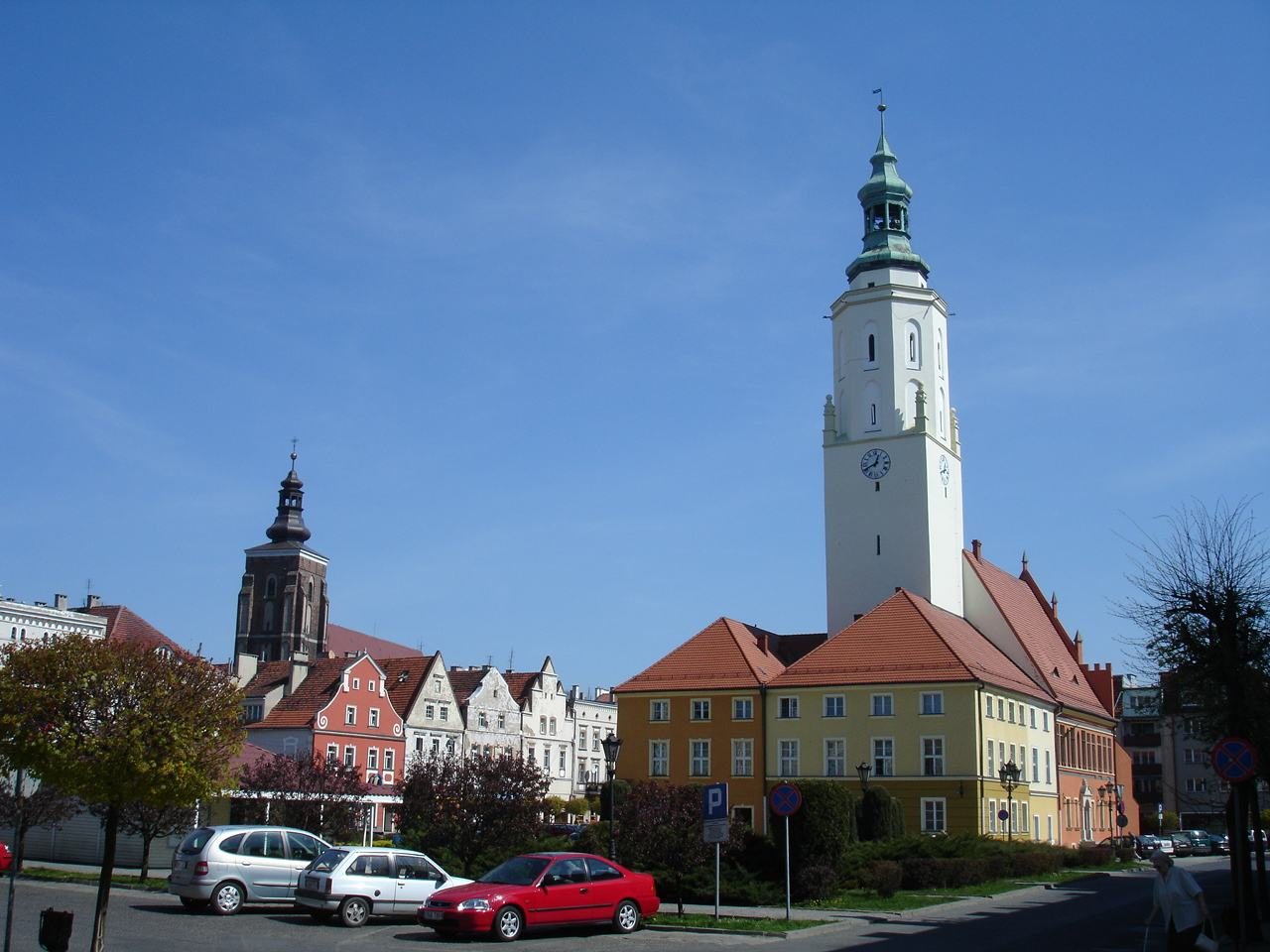 Town hall and Market Square in Namysłów, Poland